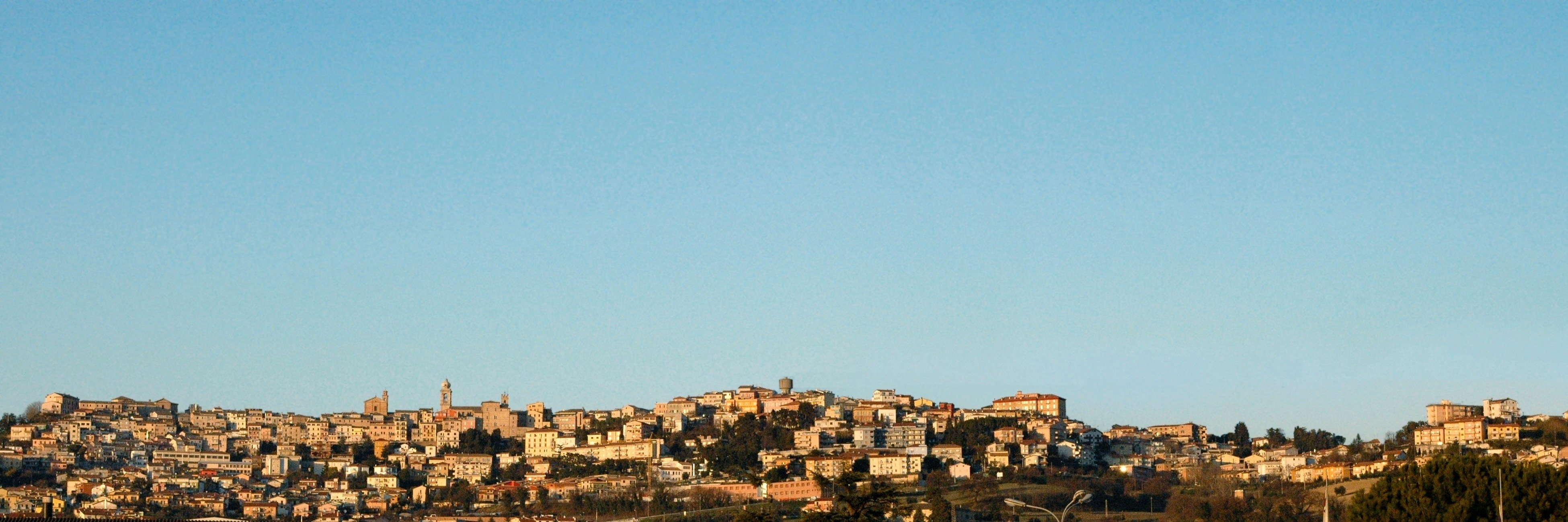 Veduta Castelfidardo